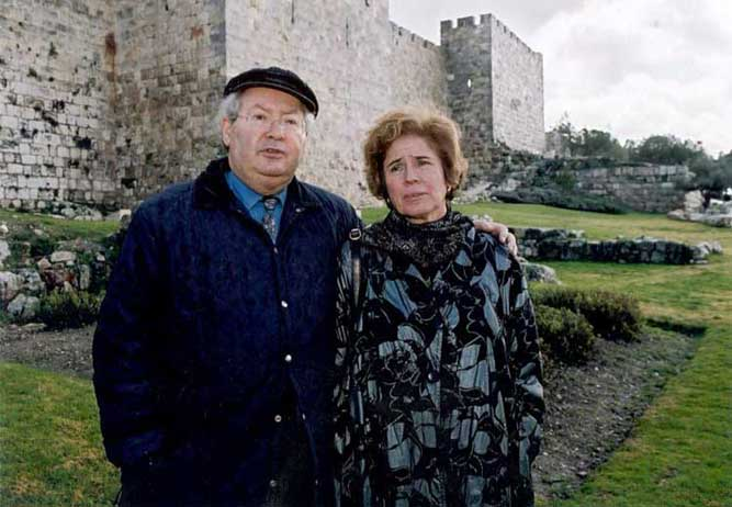 This is an image of Serge and Beate Klarsfeld.